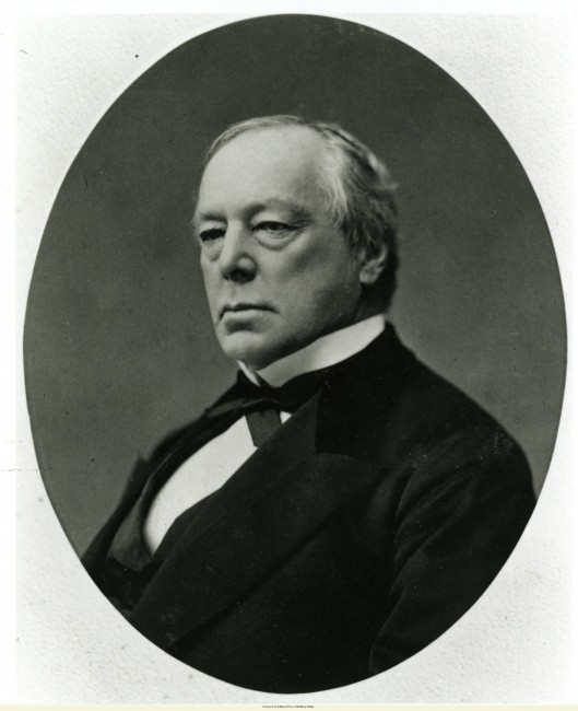 Portrait of Joseph Battell while a trustee of Middlebury College